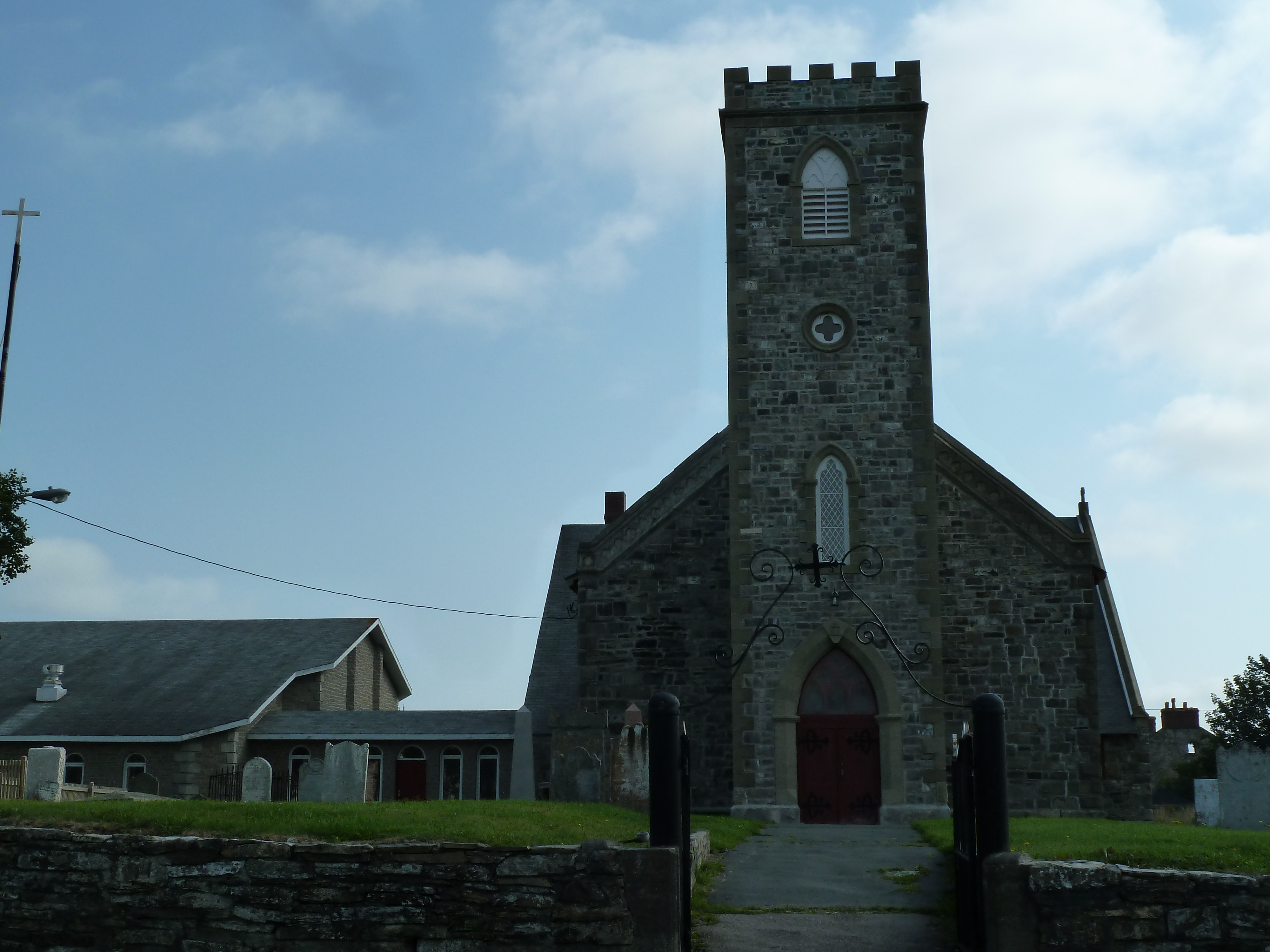 St. Paul's Anglican Church, Habour Grace, Newfoundland and Labrador